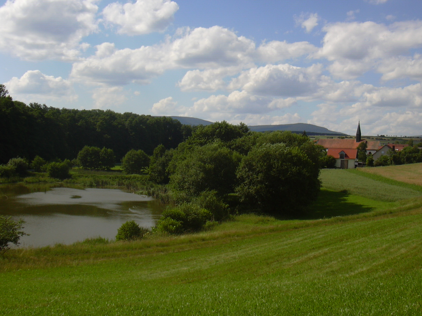 surroundings of Frauenroth, Burkardroth, Bavaria/Germany